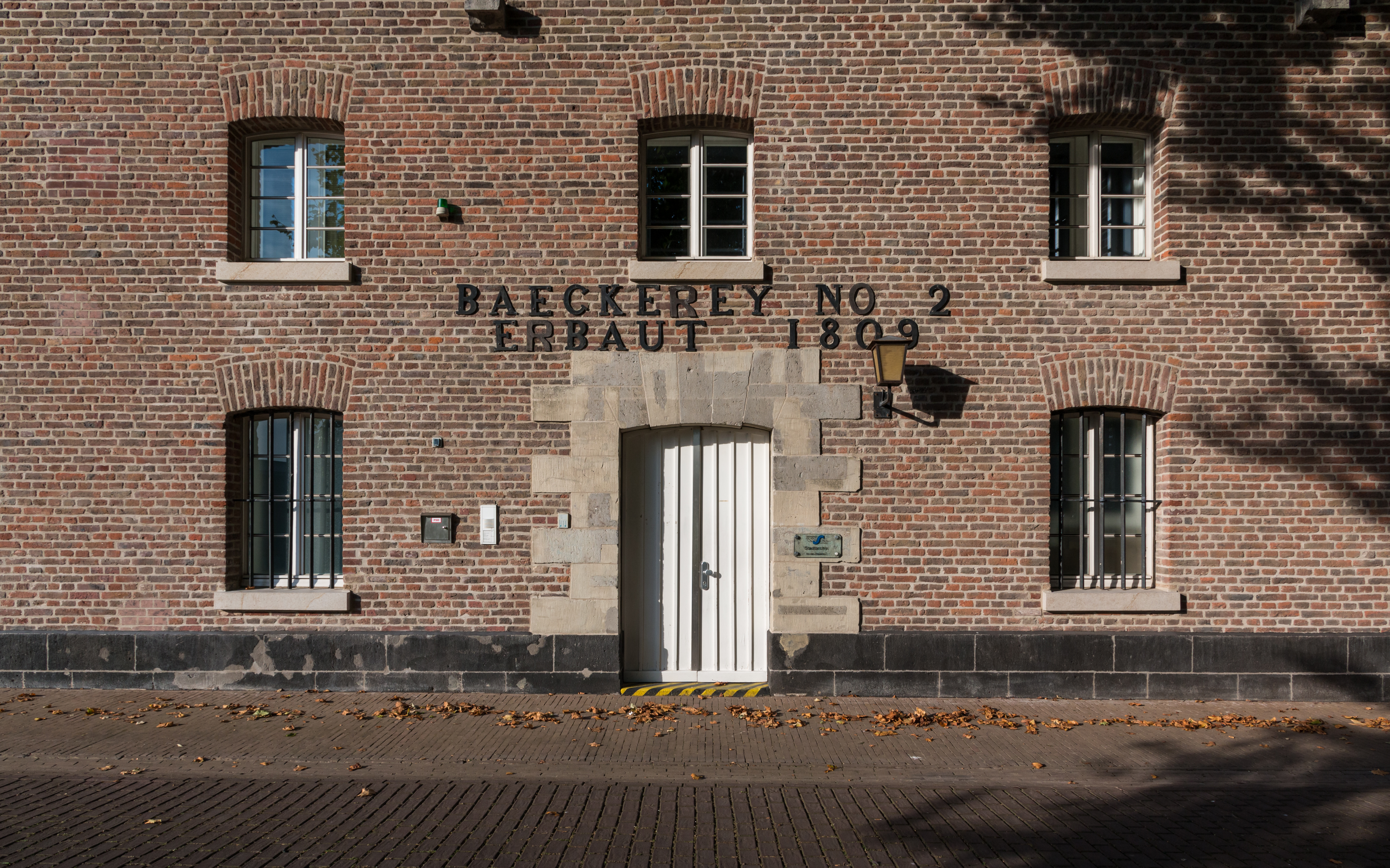 Citadel in Wesel, North Rhine-Westphalia, Germany This image shows a heritage building in Germany, located in the North Rhine-Westphalian city Wesel (no. 4).